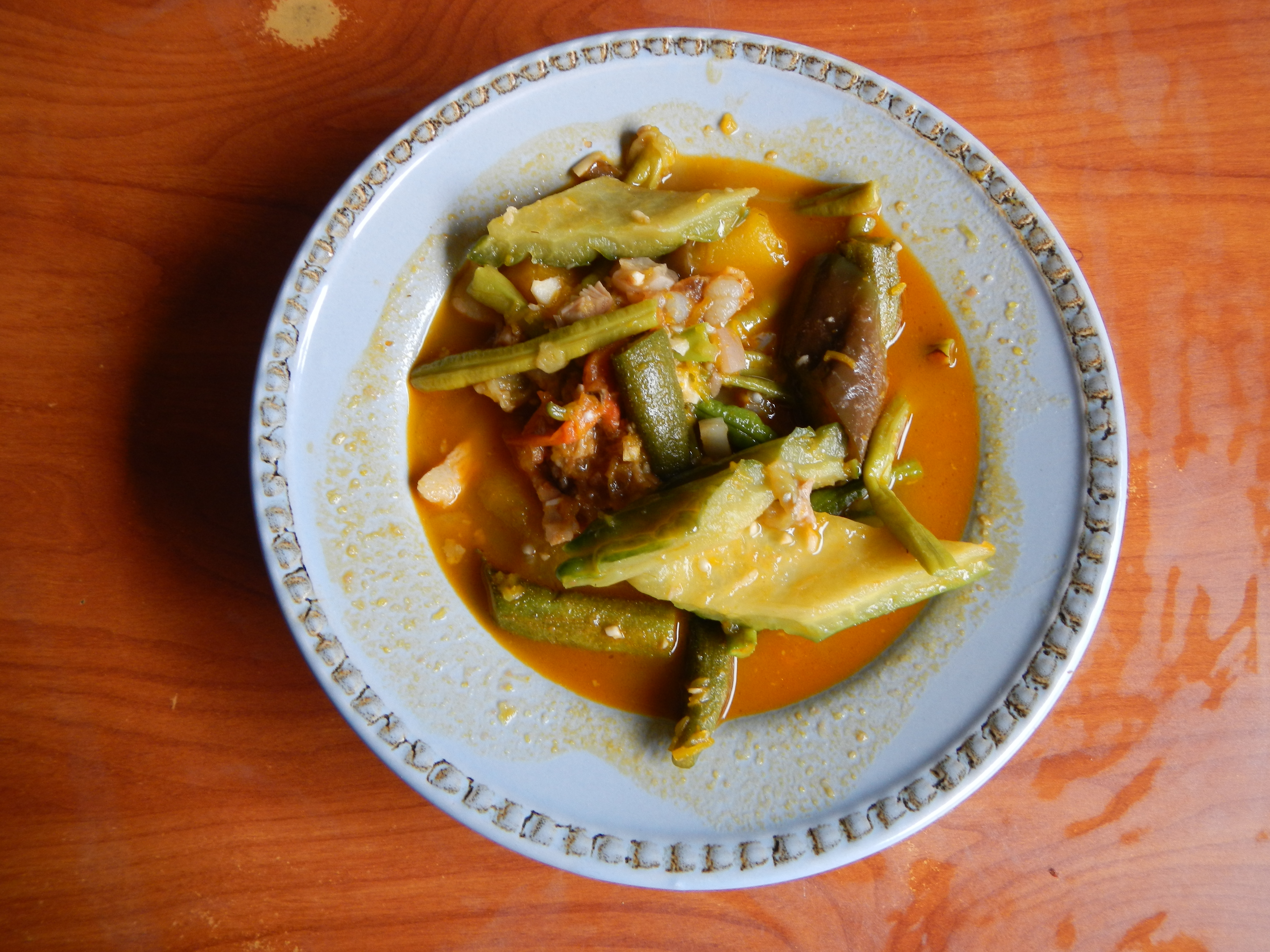 Authentic Bulakan Pinakbet[1] (La Familia of Baliuag)